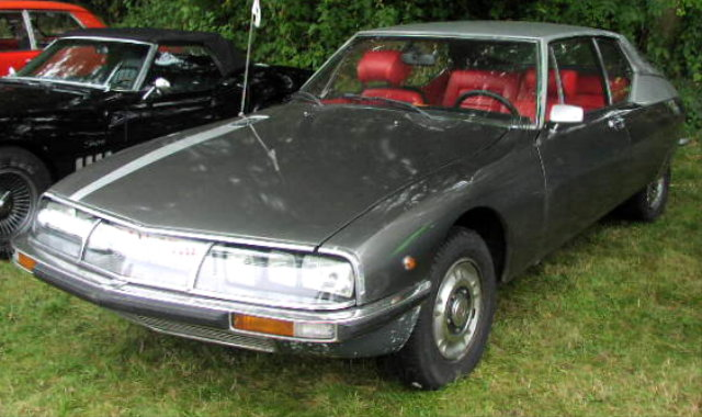 Citroen SM Coupe